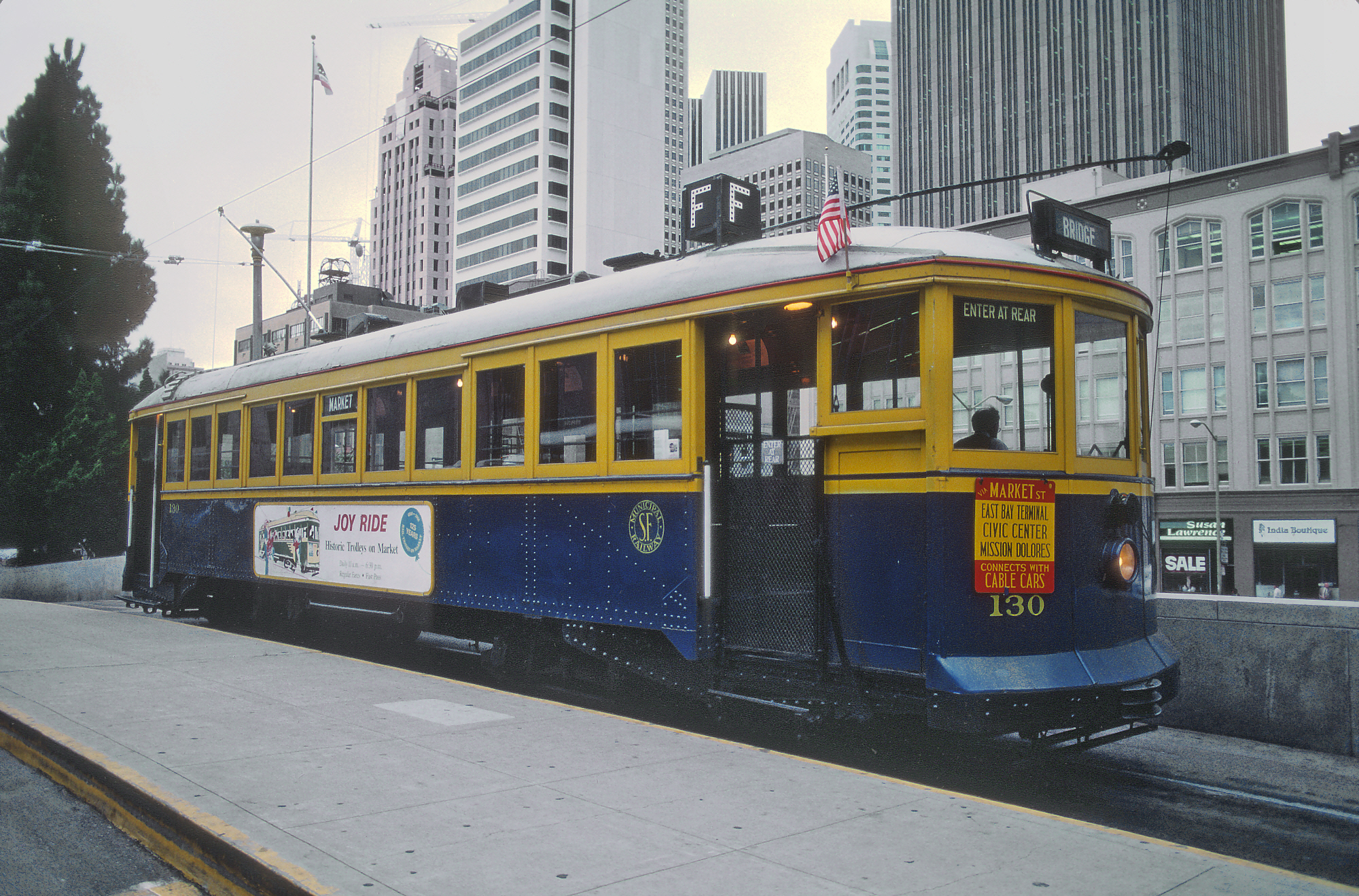 Car 130 laying over at the Transbay Terminal during the 1985 San Francisco Historic Trolley Festival This file comes from the Roger Puta collection, which passed to Mel Finzer. They were scanned and posted by Marty Bernard, are in the Public Domain. Attribution to "Roger Puta" is not required for a PD image, but should be done as a matter of courtesy to a major Commons contributor. Mel Finzer, the heirs of this work's copyright holder (usually the creator) have released it into the public domain. This applies worldwide. In some countries this may not be legally possible; if so: The heirs of the creator grant anyone the right to use this work for any purpose, without any conditions, unless such conditions are required by law. See This work is free and may be used by anyone for any purpose. If you wish to use this content, you do not need to request permission as long as you follow any licensing requirements mentioned on this page.